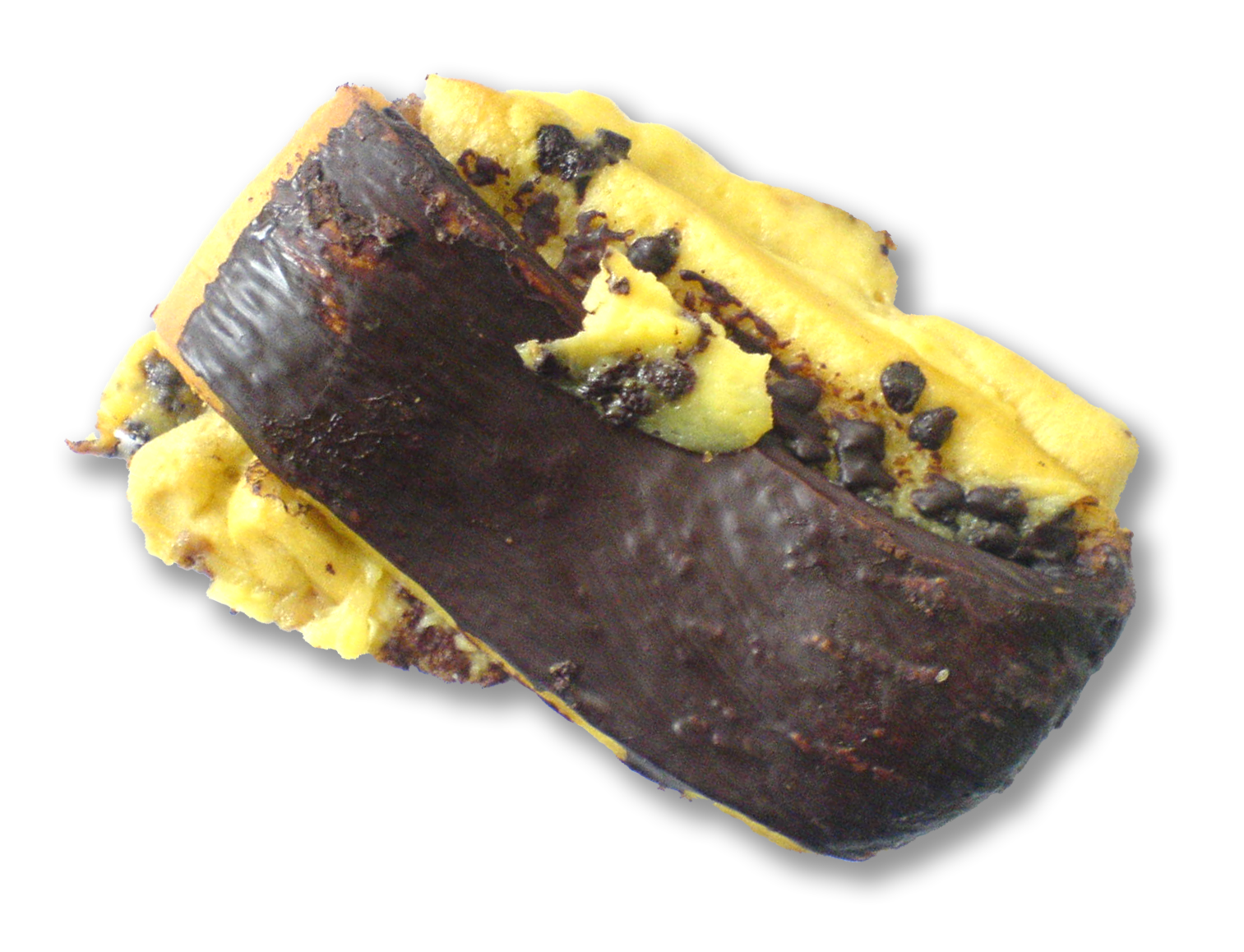 "Africain" is a pastry widespread in northern France. It is filled with crème anglaise and covered with melted chocolate.